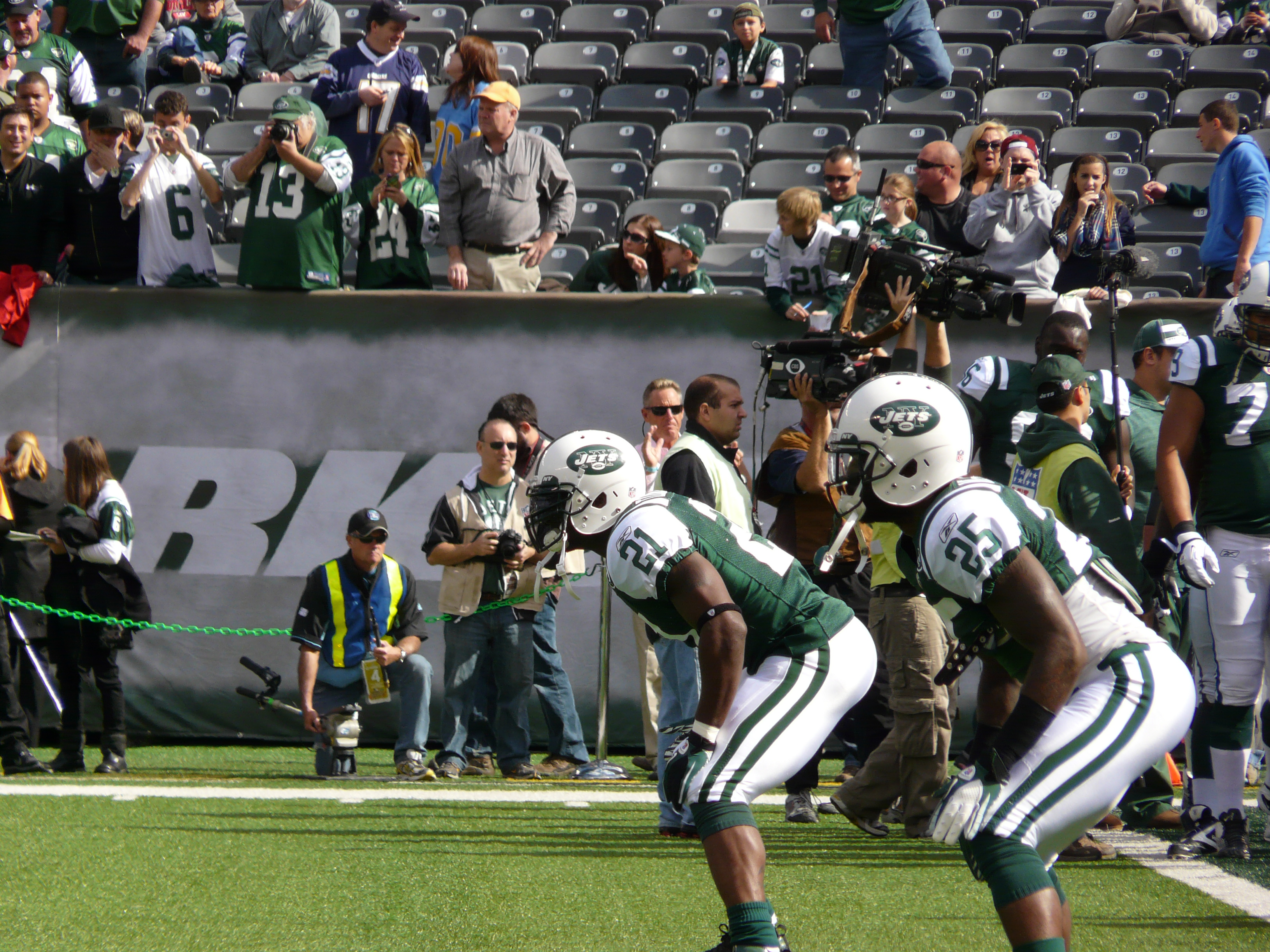 LT with the jets